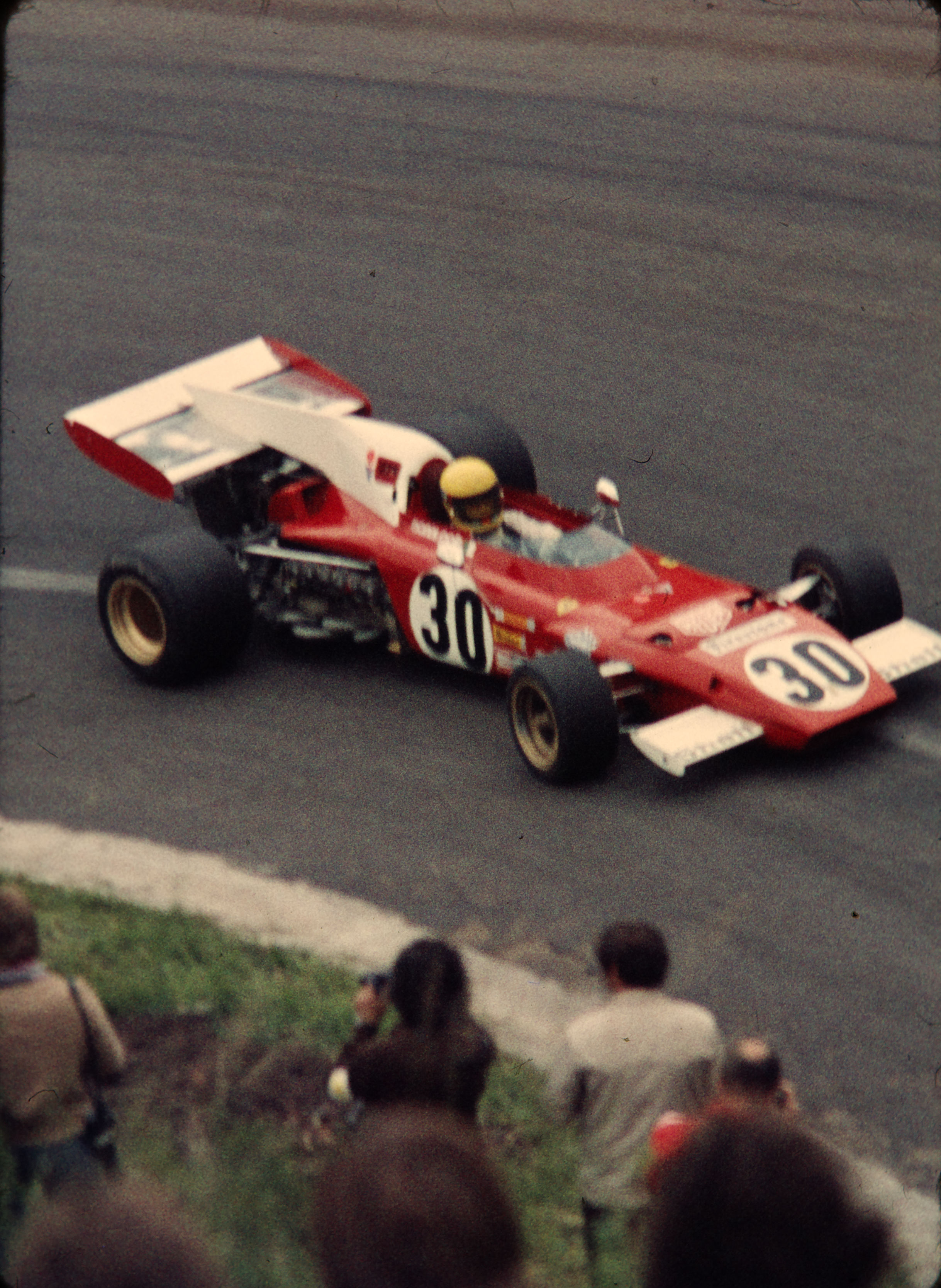 1972 French Grand Prix...